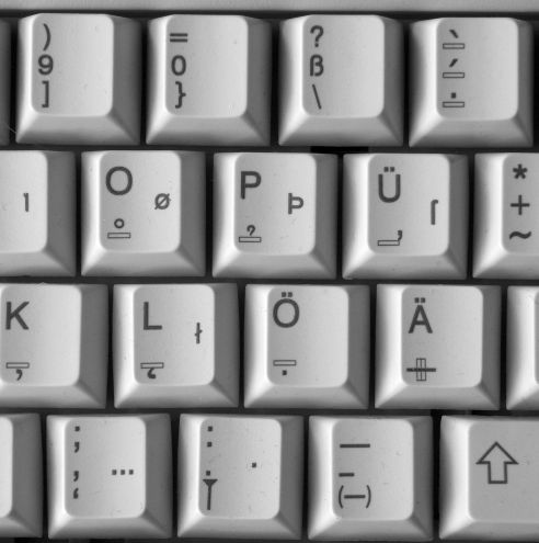 Part of a keyboard in the new standard German layout, T2. The specimen shown is a prototype, with engravings according to DIN 2137:2012-06.